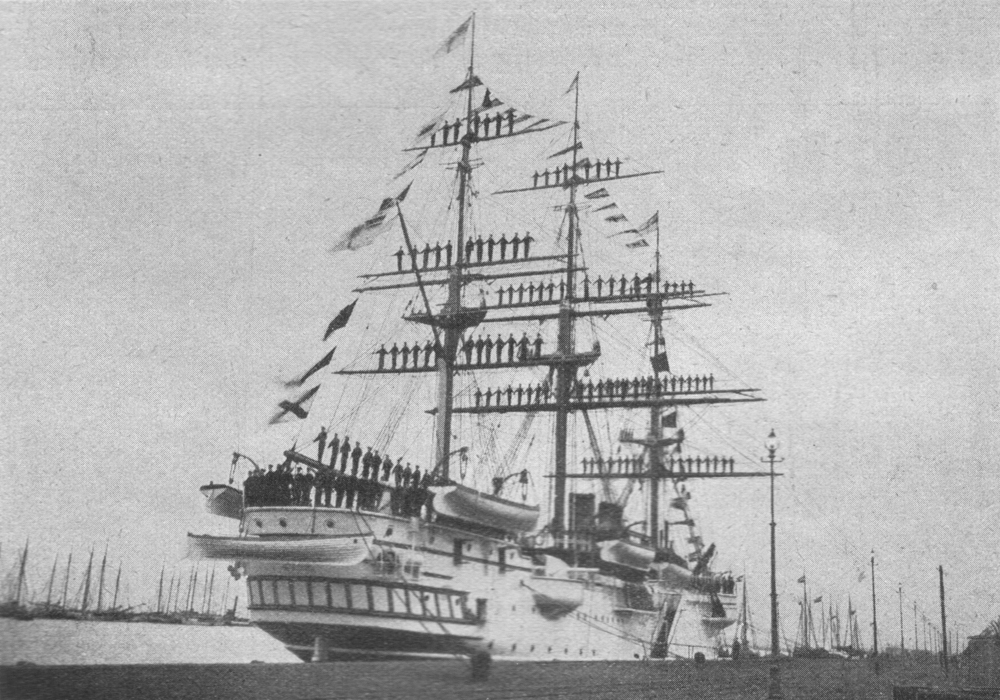 The German frigate SMS Charlotte (launched 1885) in 1902.